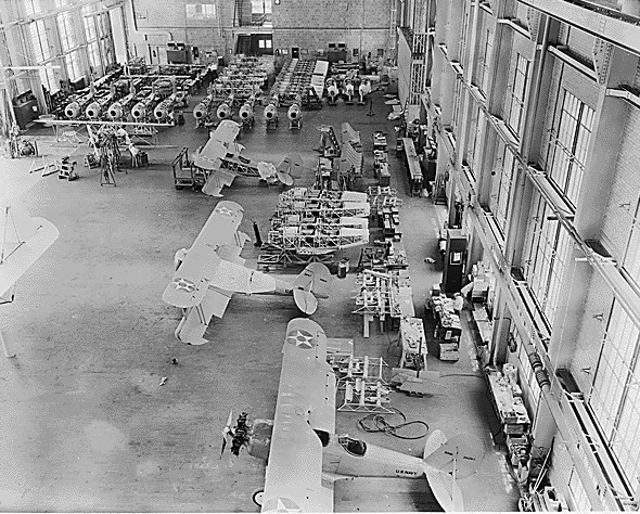 U.S. Navy N3N trainers awaiting engines and other parts at Naval Aircraft Factory, Philadelphia, Pennsylvania (USA), 28 June 1937.